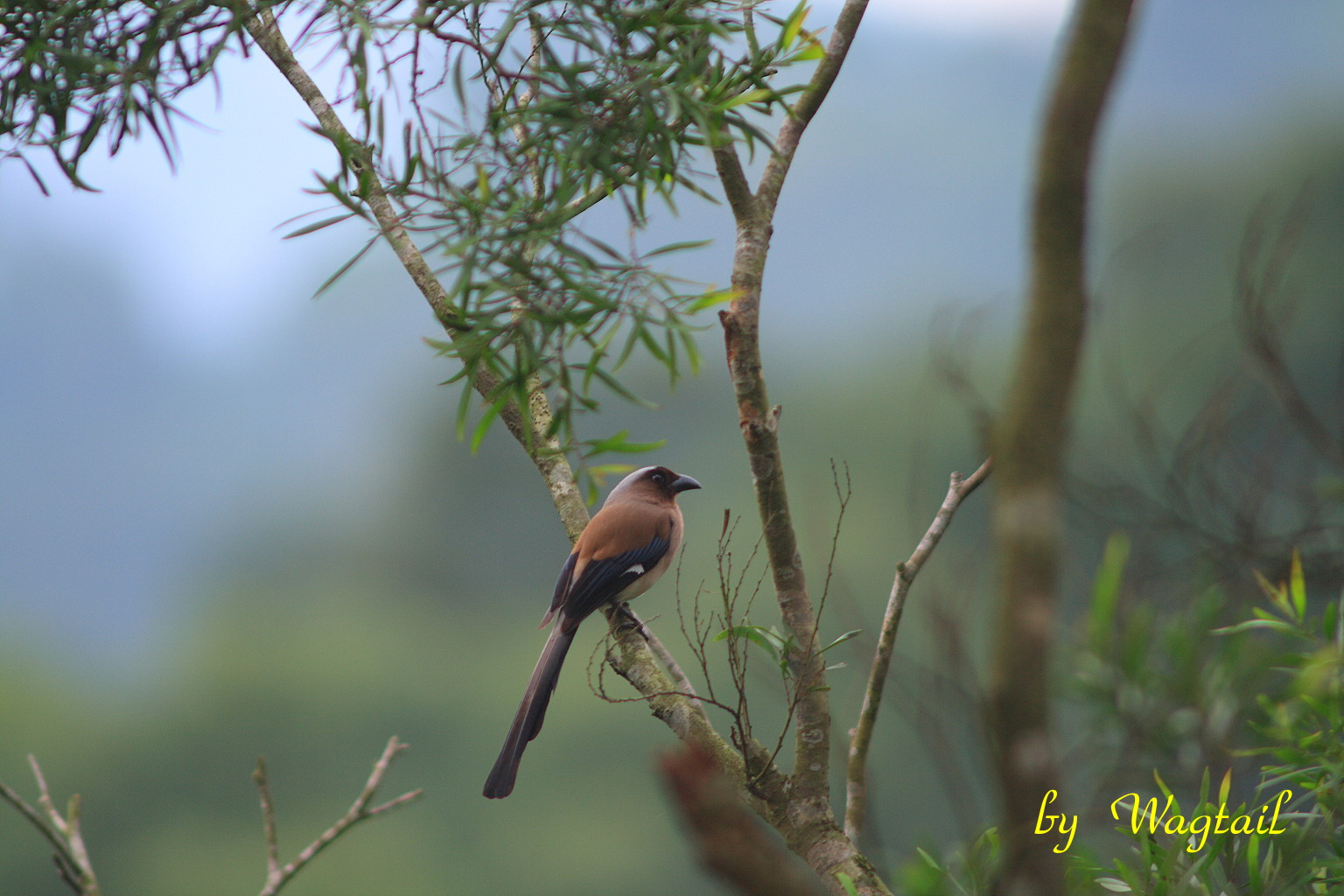 Grey Treepie (Dendrocitta formosae) ssp formosae from Taiwan